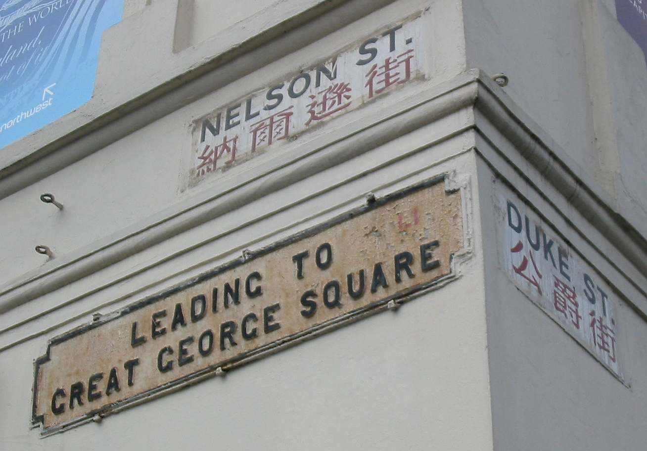 Bilingual signs for Nelson Street (納爾遜) at Duke Street (公爵遜) in Liverpool's Chinatown